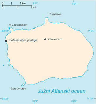 Map of Bouvet Island in Slovene.